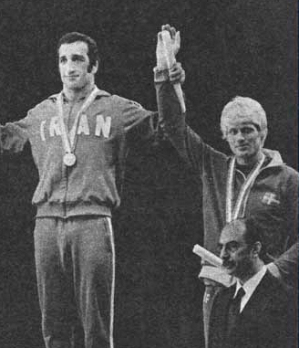 Mansour Barzegar and Jan Karlsson at the 1973 World Championships in Tehran (74 kg freestyle)